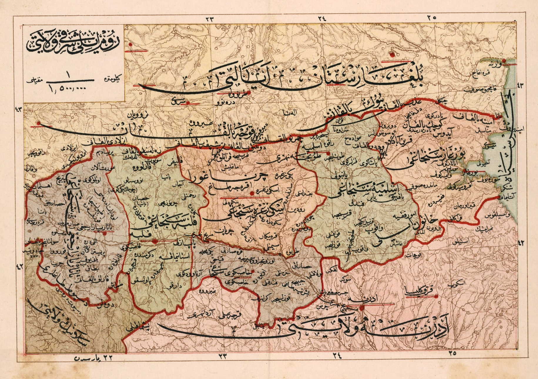 Eastern Rumelia Vilayet — Memalik-i Mahruse-i Şahaneye Mahsus Mukemmel ve Mufassal Atlas (1907)